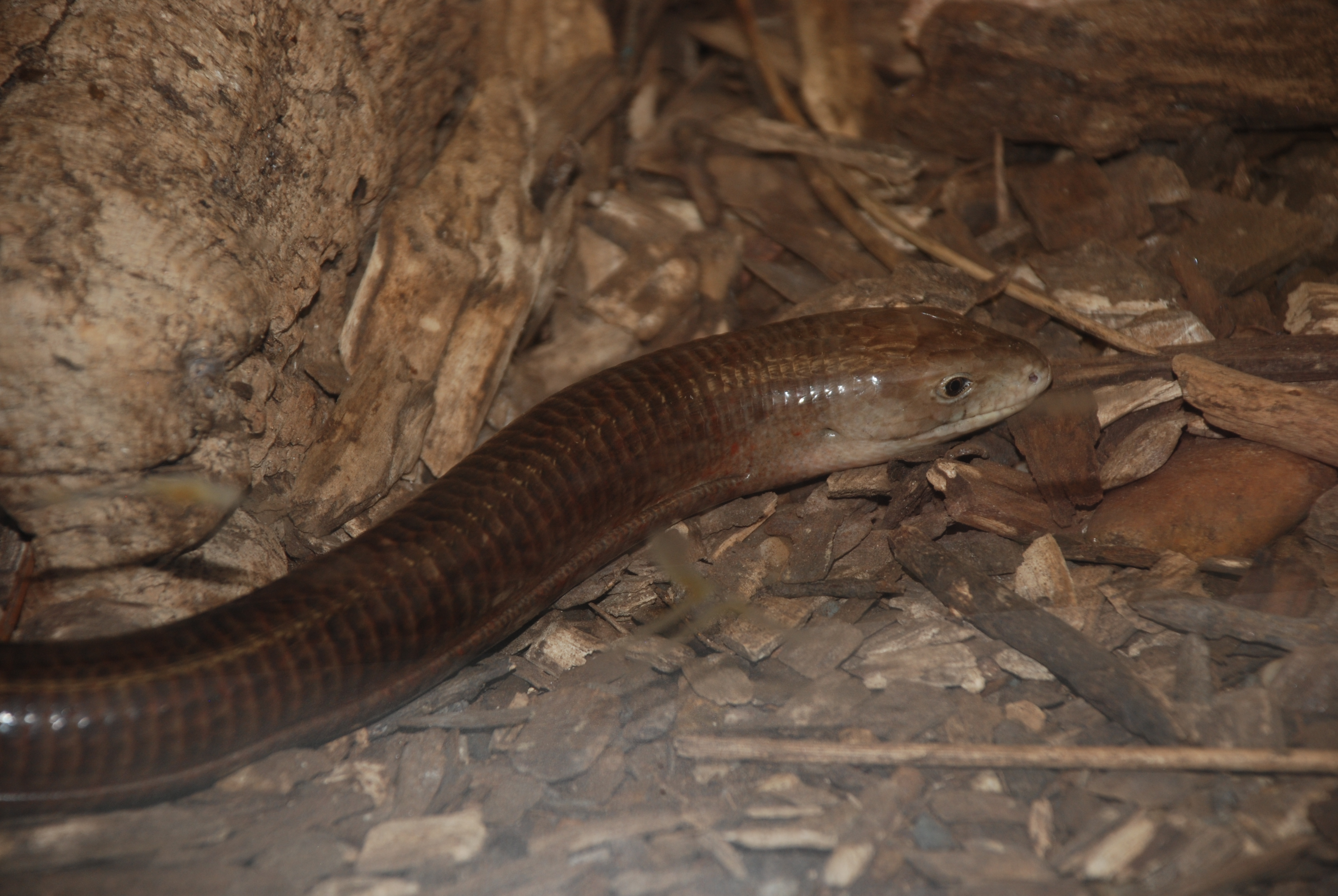 Reptiles in Smithsonian National Zoological Park: Ophisaurus apodus Scheltopusik or European Legless Lizard